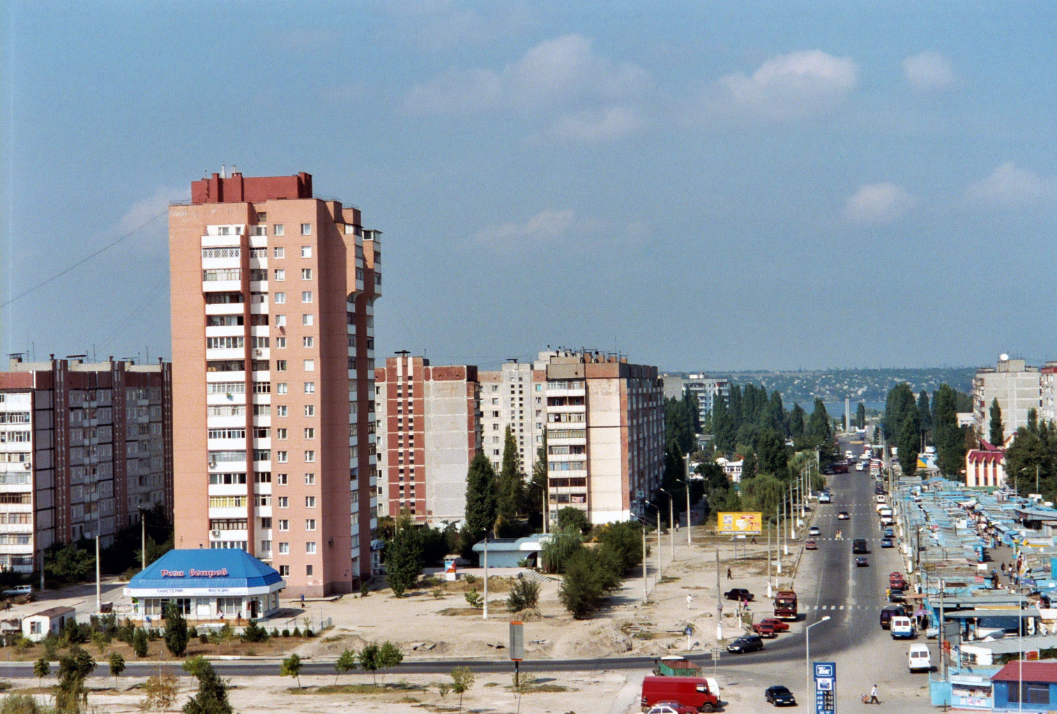 Mykolayiv, Ukraine. View of the Namyv microdistrict, 2005.